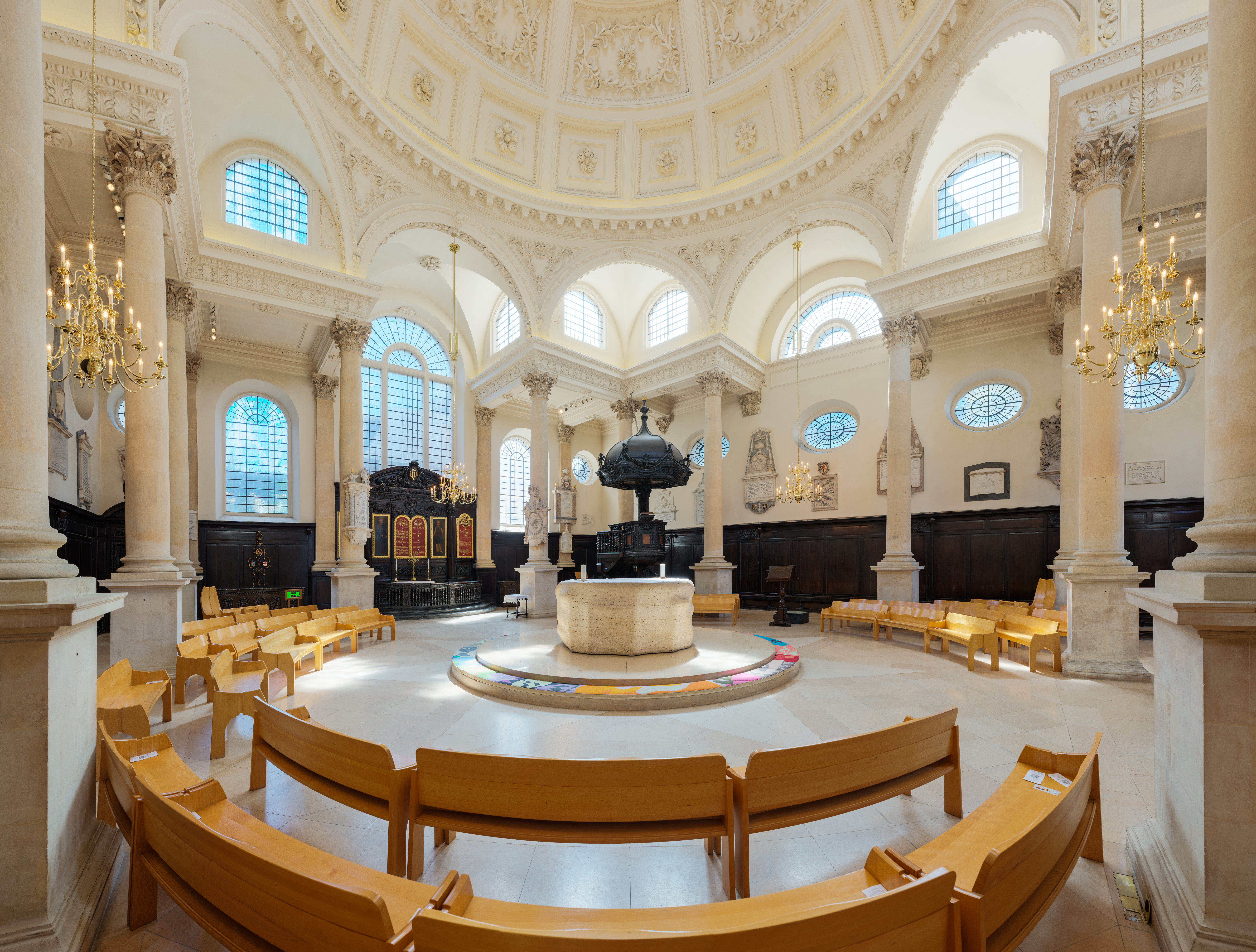 The interior of St Stephen Walbrook Church in London, England, looking diagonally across the central altar.